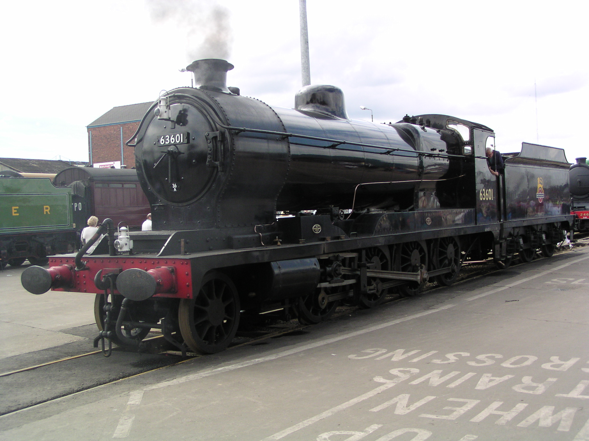 LNER 2-8-0 Class O4 (previously GCR Class 8K) no. 63601 at Doncaster Works open day on 27th July 2003. This locomotive is preserved on the Great Central Railway.